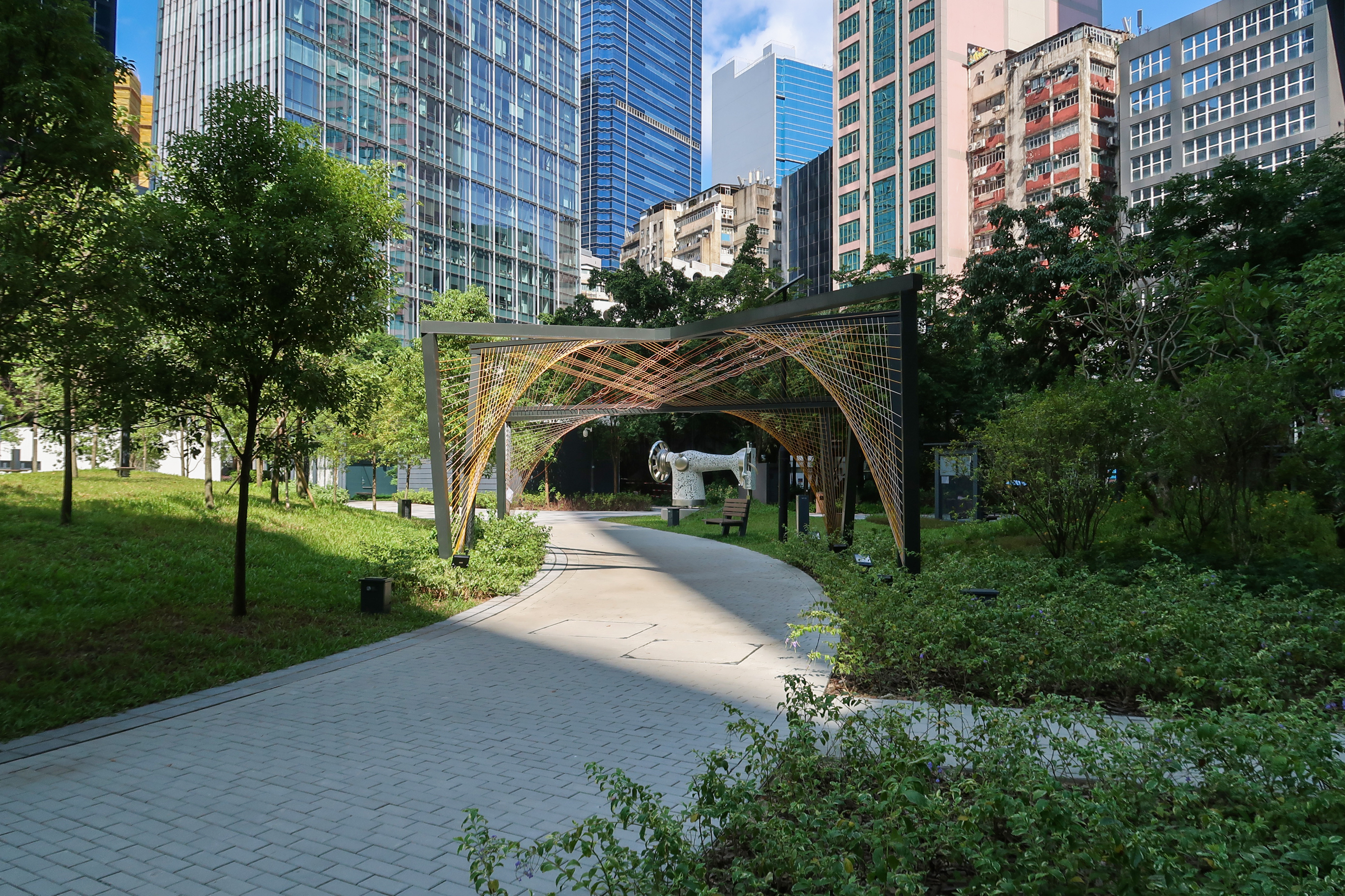 InPark The Fabric Green